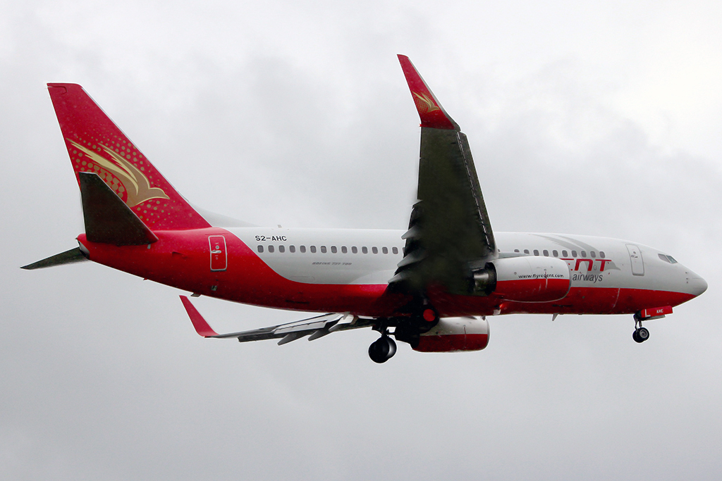 First 73G of Regent Airways is landing at VGHS on a cloudy after succesfully completing DAC-KUL-DAC flight.